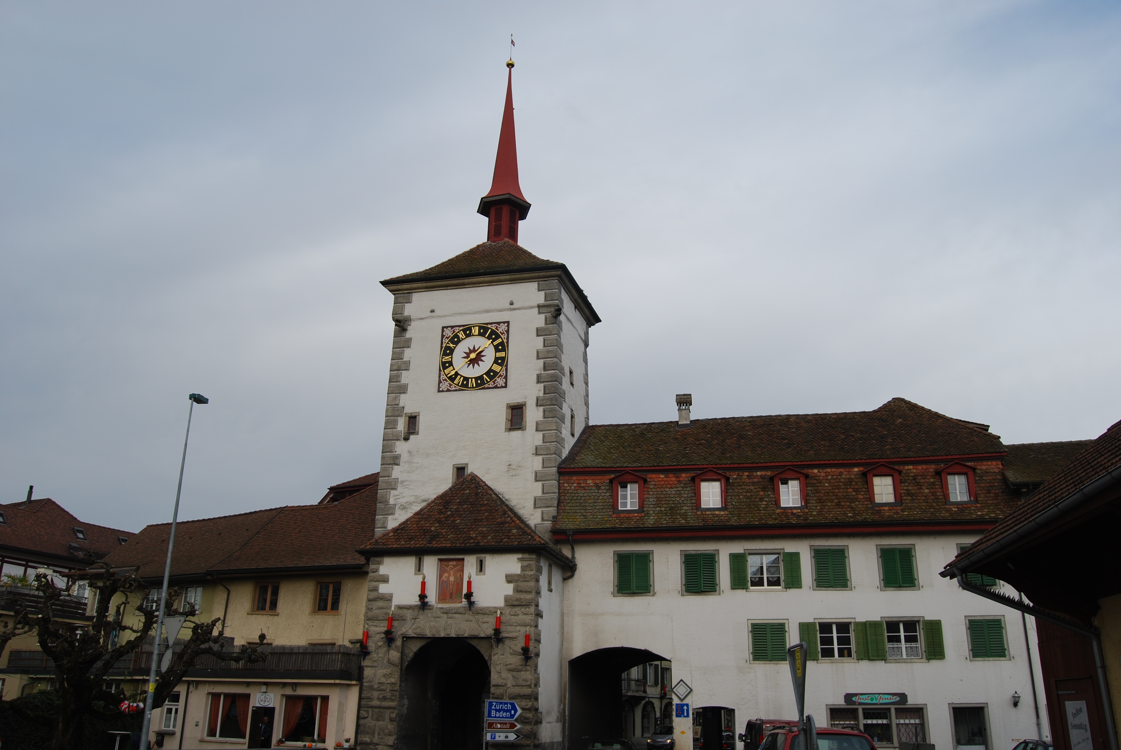 City gate Mellingen, canton of Aargau, SwitzerlandEsperanto: Urbopordo Mellingen, Kantono Argovio, Svislando